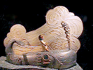 Copyright ©2006 by Daniel P. B. Smith and released under the terms of the GFDL. Picture of a Baranger Motion display taken at The House on the Rock in Spring Green, Wisconsin.